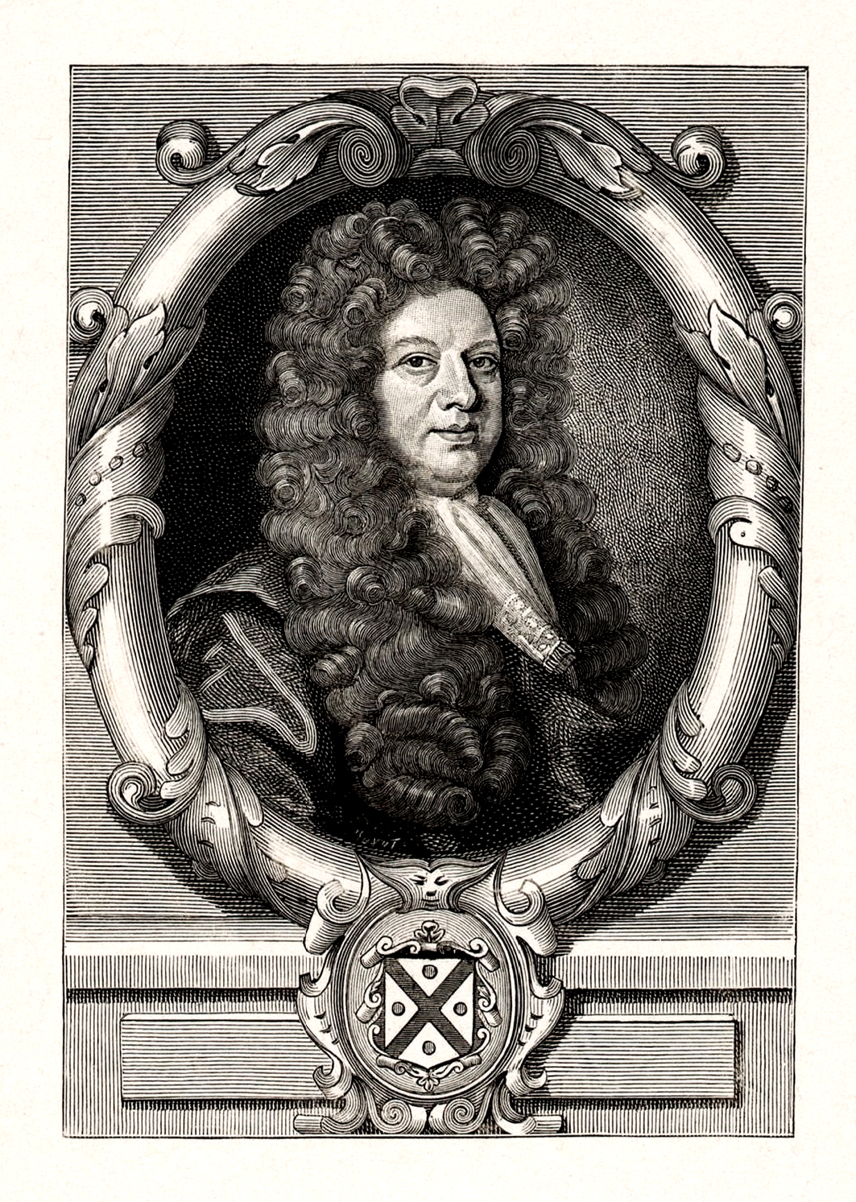 John Blow (1649 - 1708), english composer and organist.